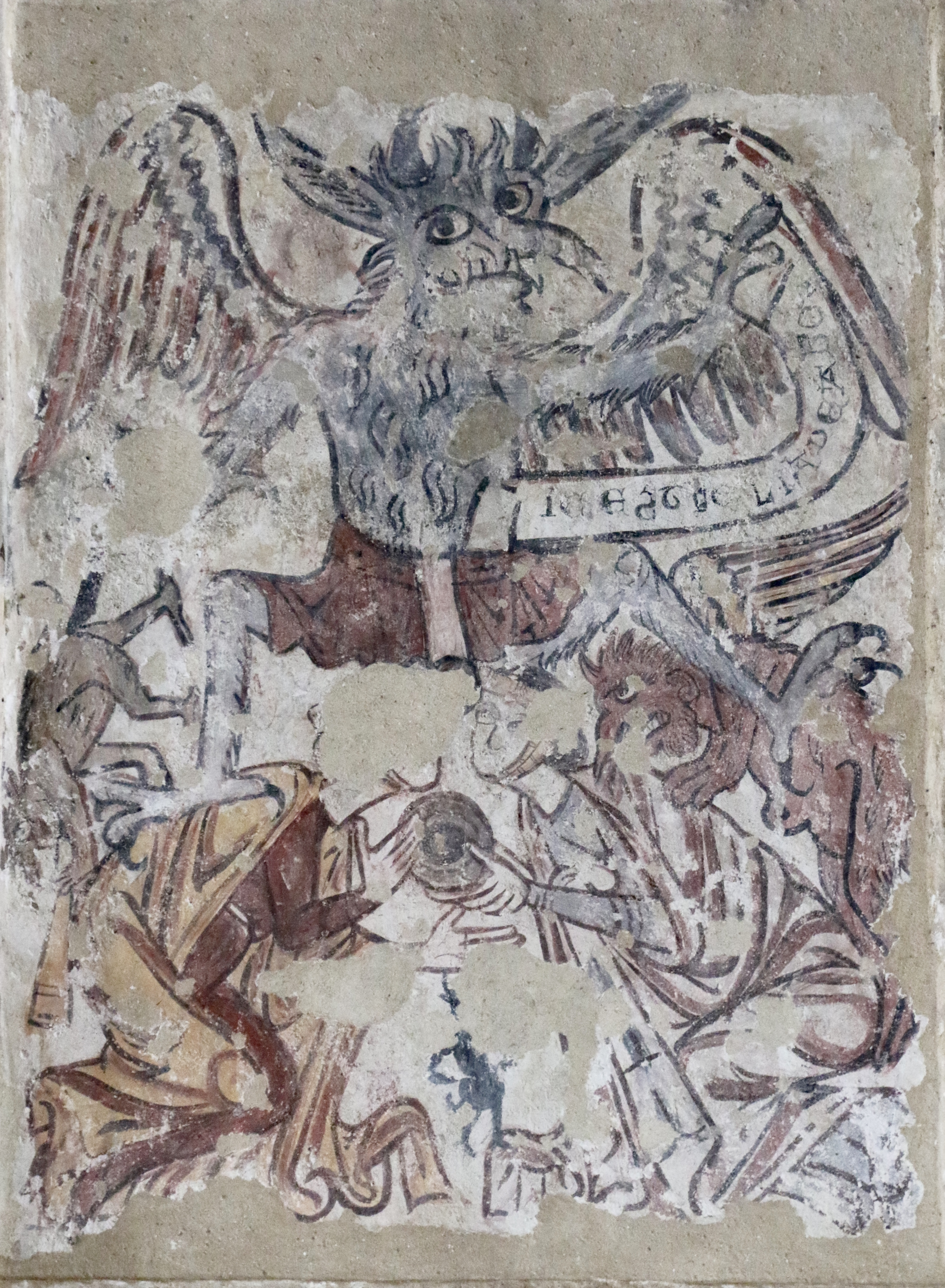 The painting shows the demon Titivillus hovering over two women who are arguing over a round object and who have a smaller demon on their backs.